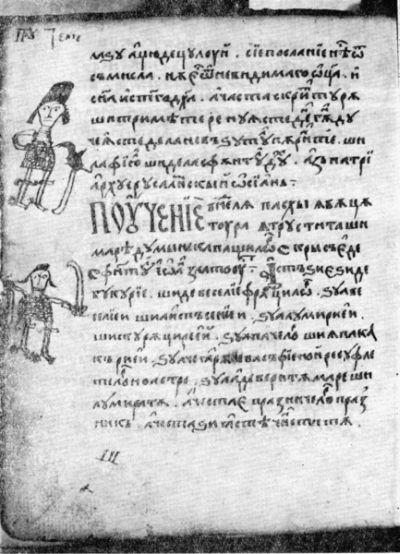 The facsimile is part of the Ieud Codex page 18